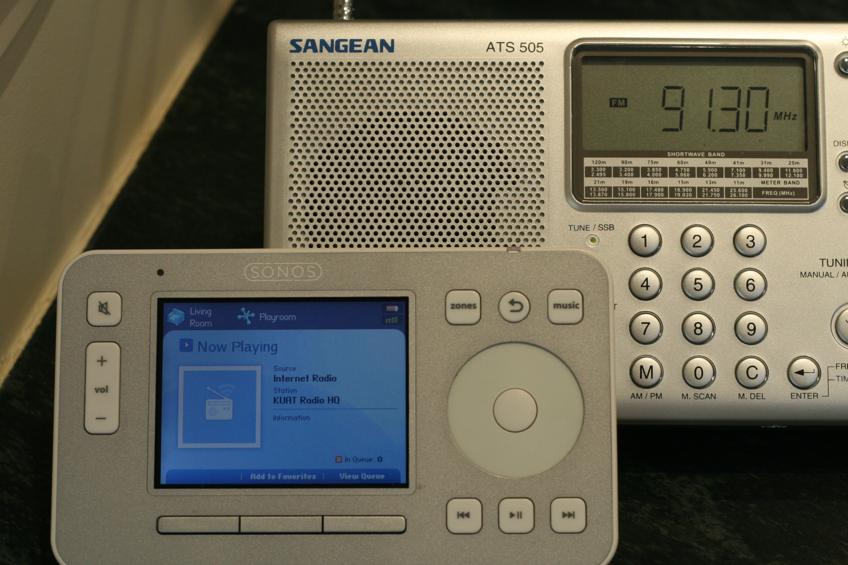 Here are the Sonos controller ? a kind of whole-house iPod for all your music and music sources ? and the Sangean radio I use in the kitchen when I make breakfast every morning I'm home. The Contoller connects to the ZonePlayers wirelessly over wi-fi. The ZonePlayers also connect either through Ethernet or wi-fi. Only one ZonePlayer needs to be connected to the Net by Ethernet. Different ZonePlayers can play different sources for different rooms. We use the system almost exclusively for listening to Internet-based sources, especially Internet radio. Above is the Controller tuned to KUAT Radio HQ in Tucson, a classical station.